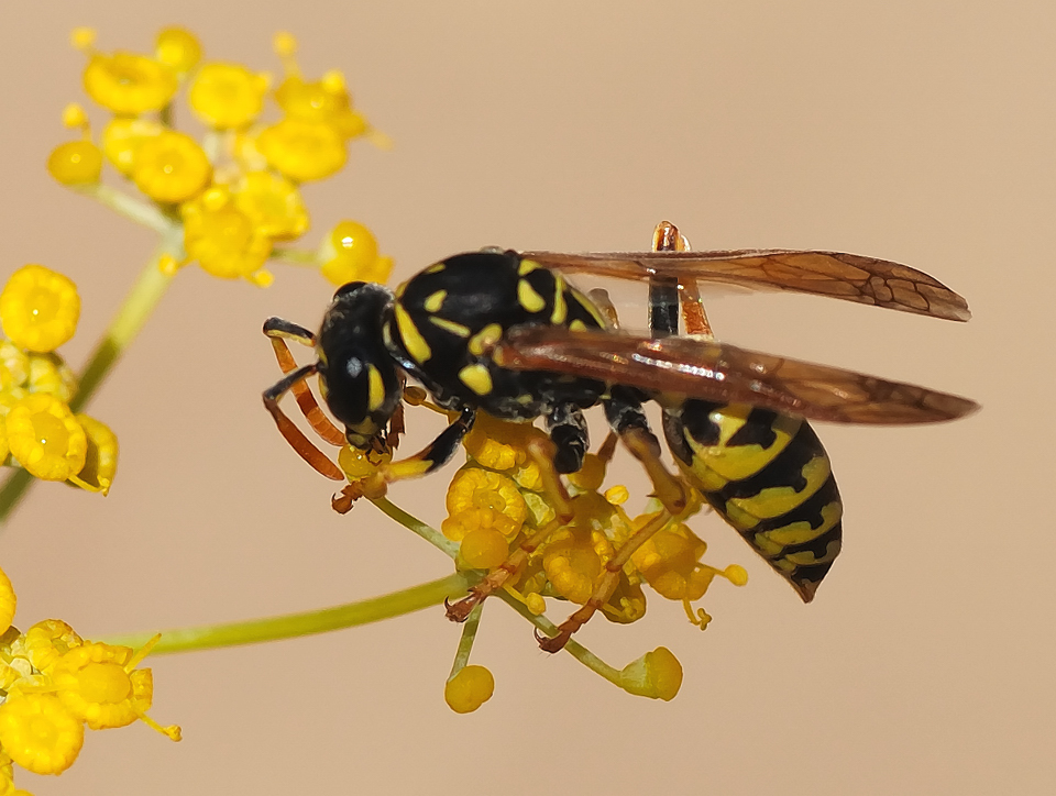 female paper wasp (Polistes dominula)